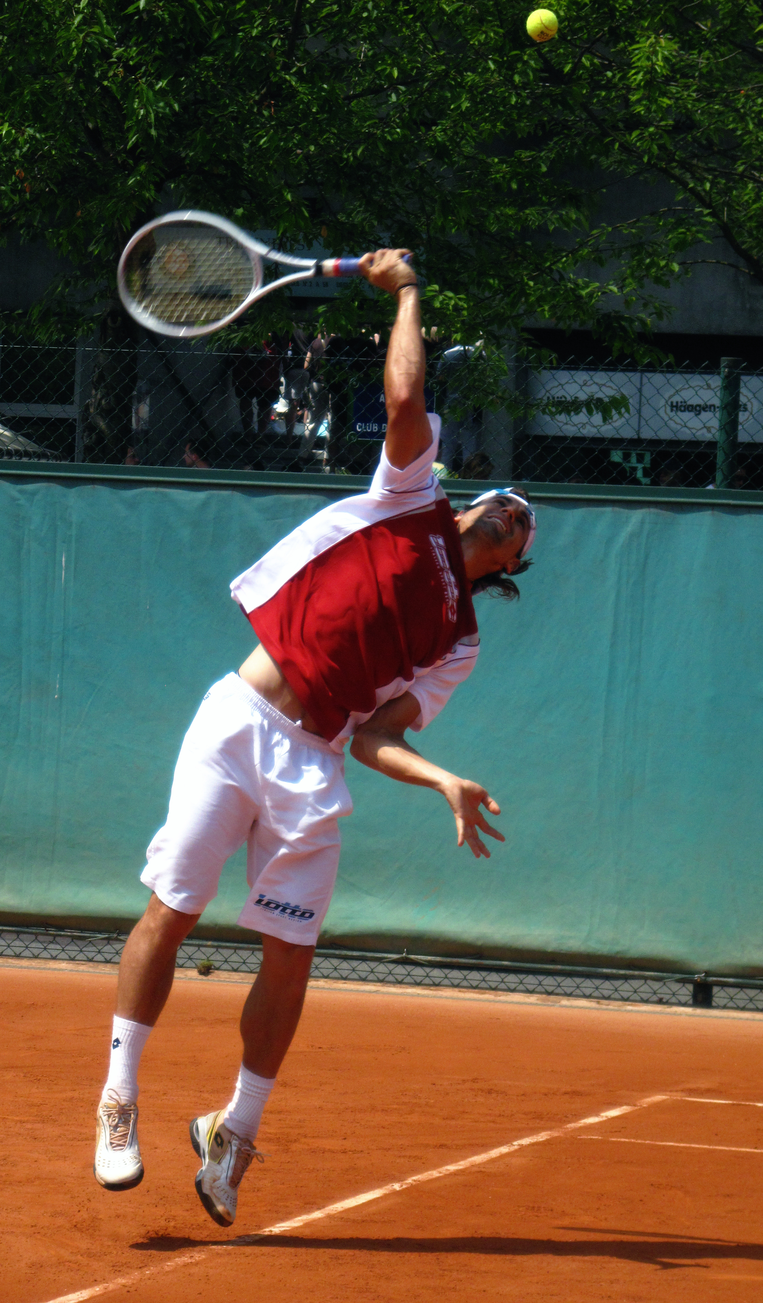 David Ferrer at 2009 Roland Garros, Paris, France